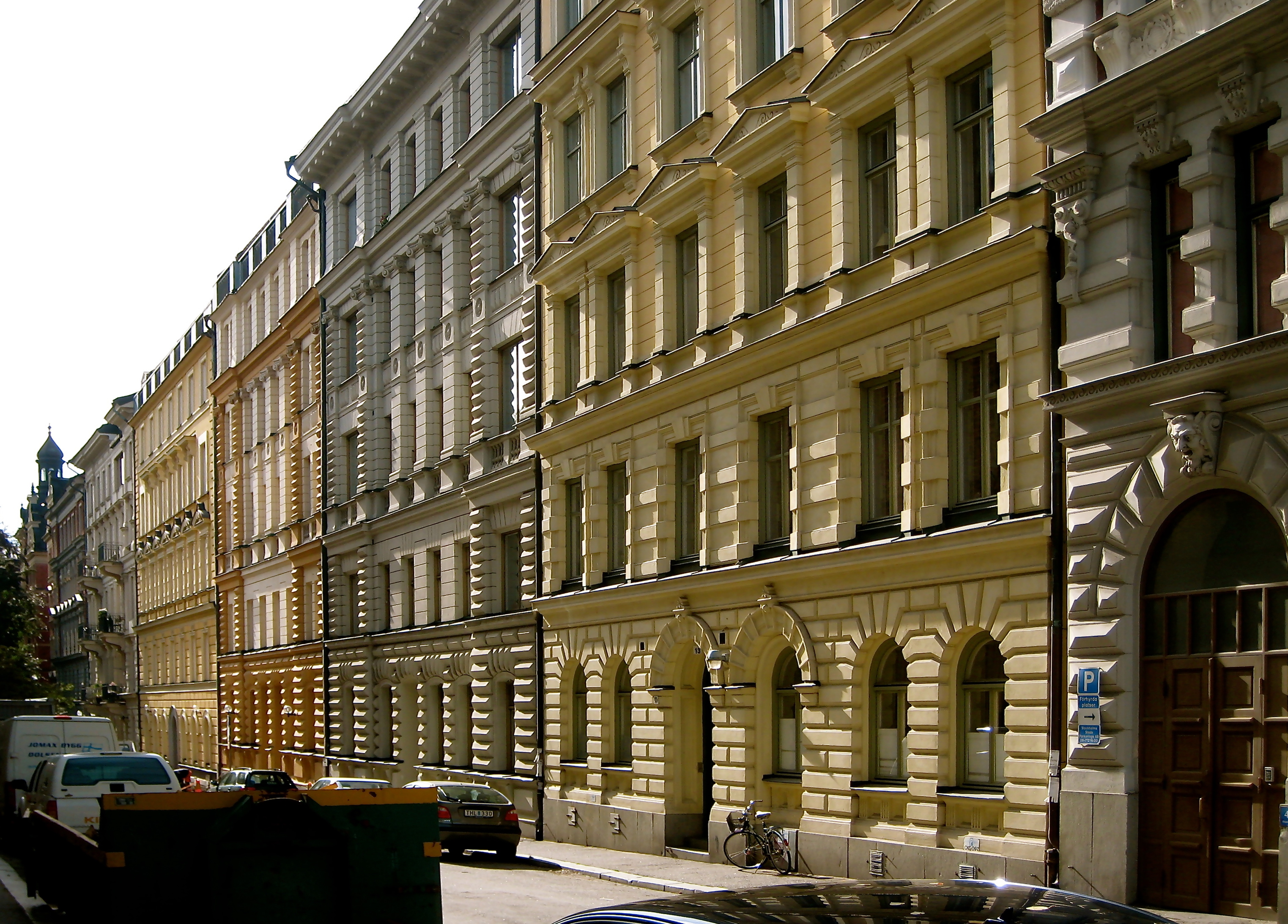 Stureparken